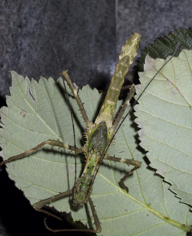 Male of Müller's Haaniella (Haaniella muelleri)